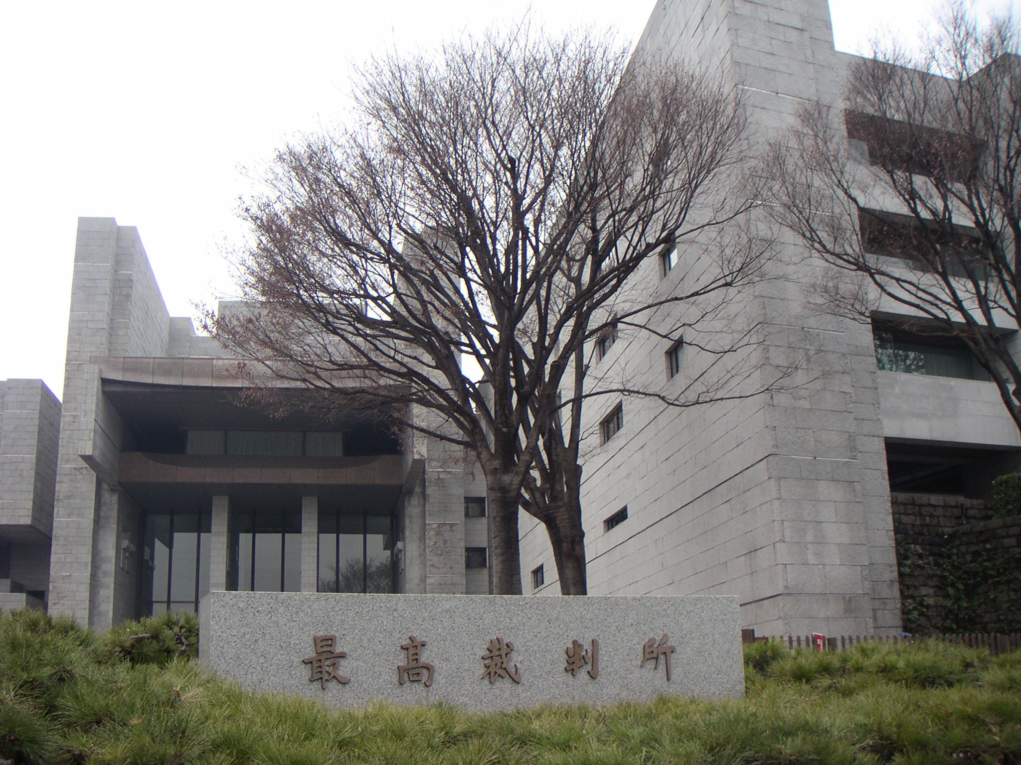 Supreme Court of Japan (Saikōsaibansho)